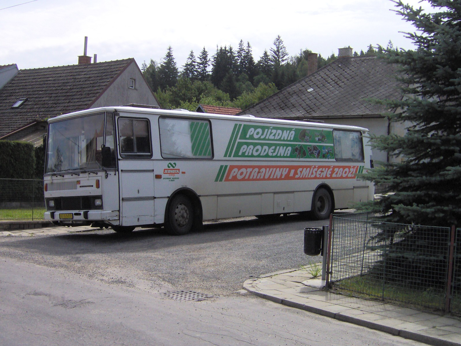 Karosa B 732 bus of Jednota Třešť modified to retail vehicle, Dobrá Voda, Mrákotín, Jihlava Disctrict, Czech Republic